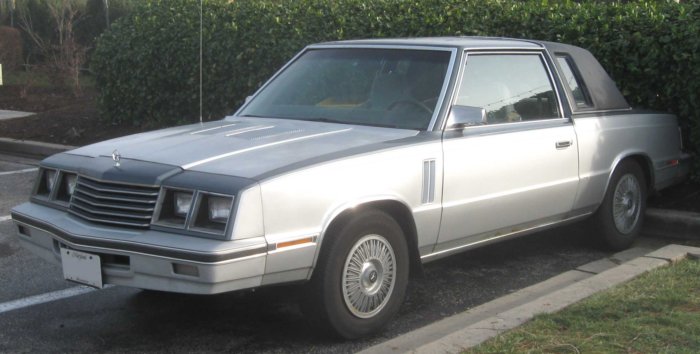 1984-1985 Dodge 600 photographed in Largo, Maryland, USA.